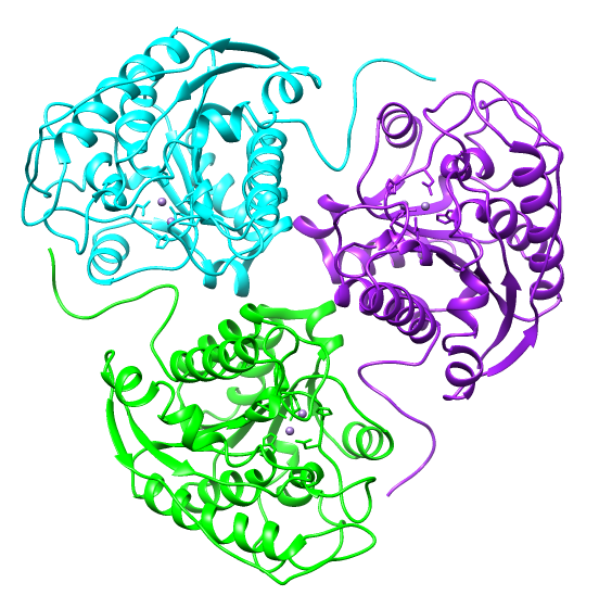 Crystal structure of human arginase PDB entry 2pha